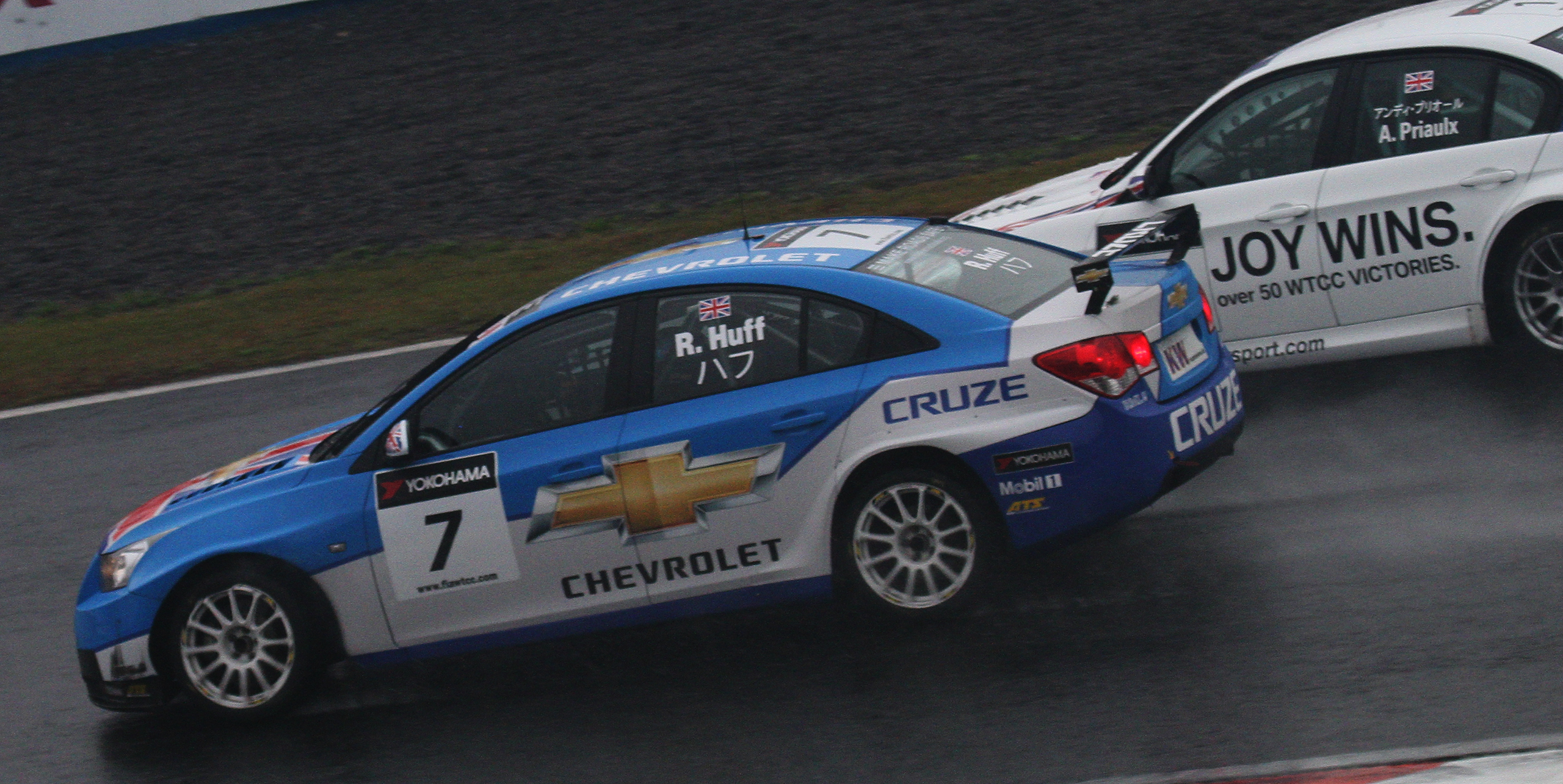 World Touring Car Championship 2010 Race of Japan: Robert Huff (Chevrolet) overtaking Andy Priaulx (BMW Team RBM) on the Race 1.